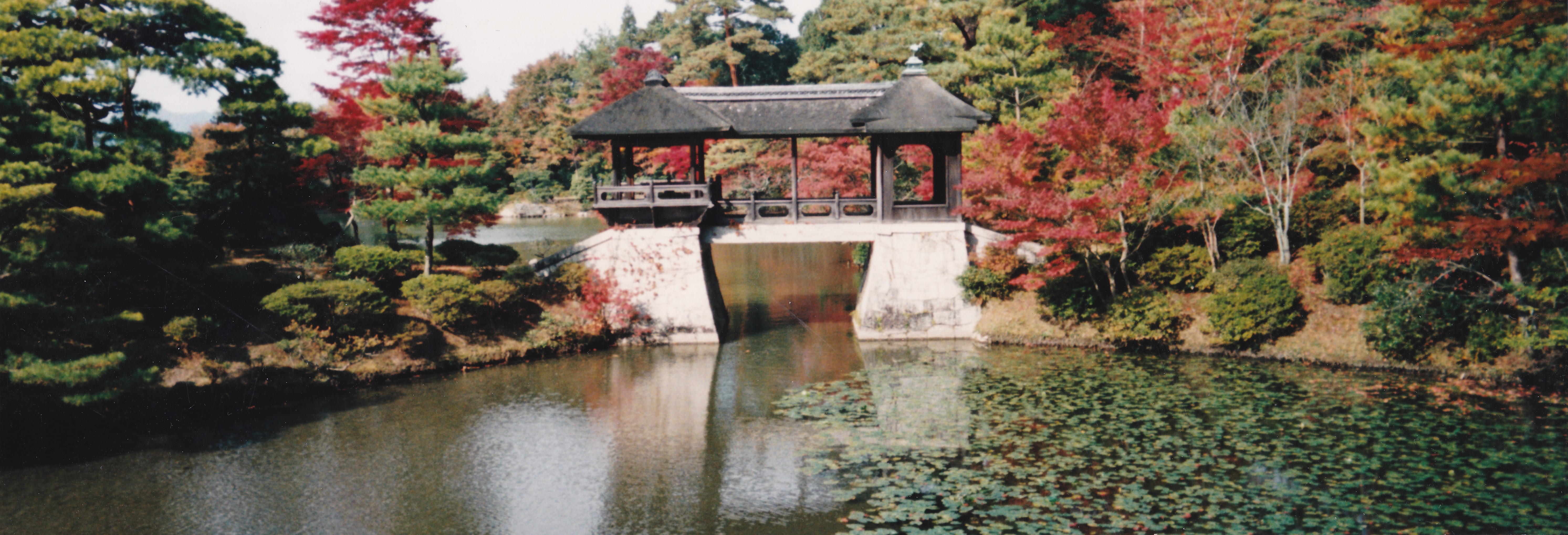 Chitose-bridge at Shugakuin, Kyoto